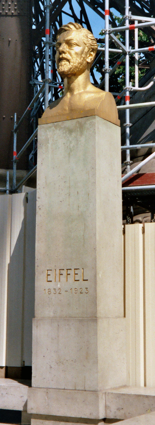 Gilt bronze portrait of Gustave Eiffel (1927) by Antoine Bourdelle (1861-1929) beneath the Eiffel Tower.